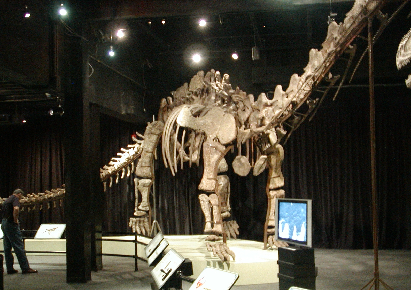 Photo of skeleton of Mamenchisaurus jingyanesi from the Beijing Museum on view at the Miami Museum of Science.